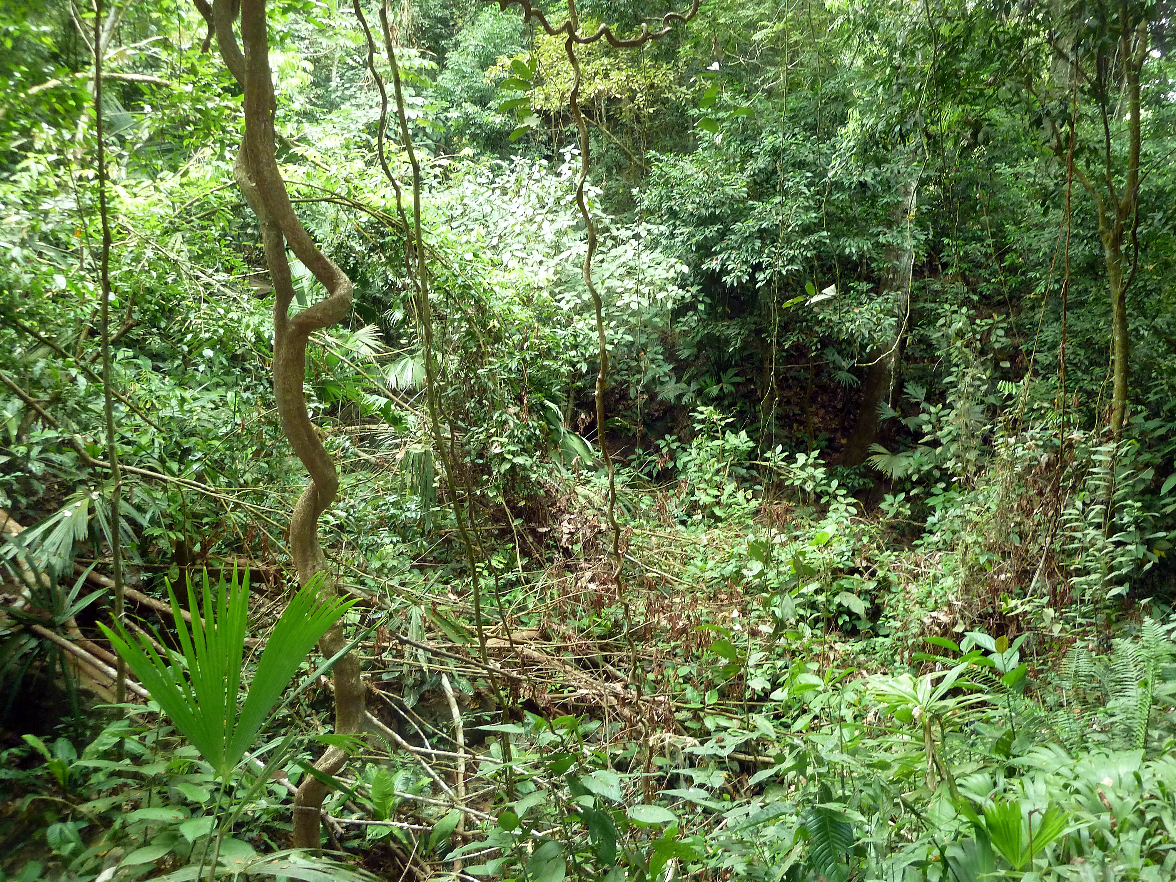 Hiking through Tayrona National Park in northern Colombia - foliage